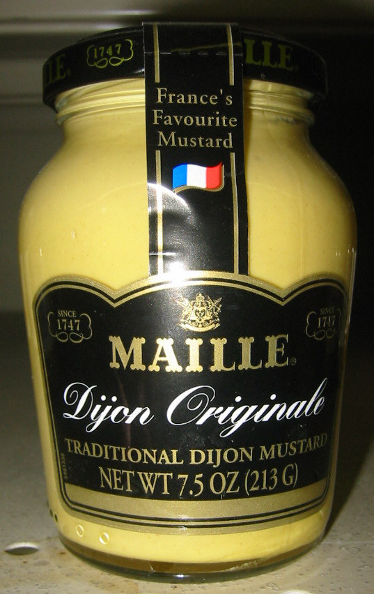 Dijon mustard Maille Originale, 213 g